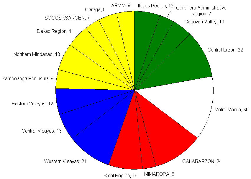 Allocation of single-constituency seats for the w:15th Congress of the Philippines.